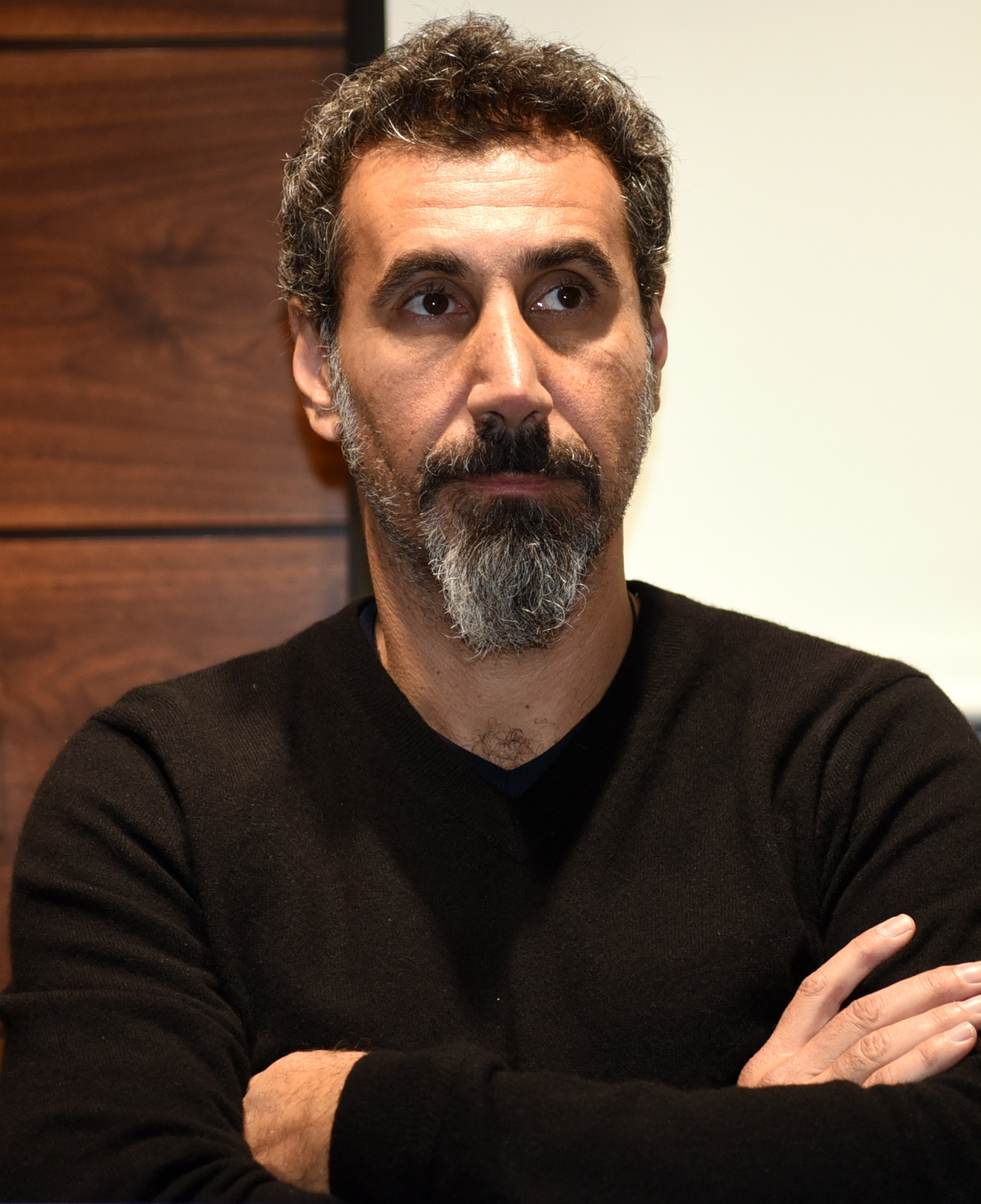 Serj Tankian